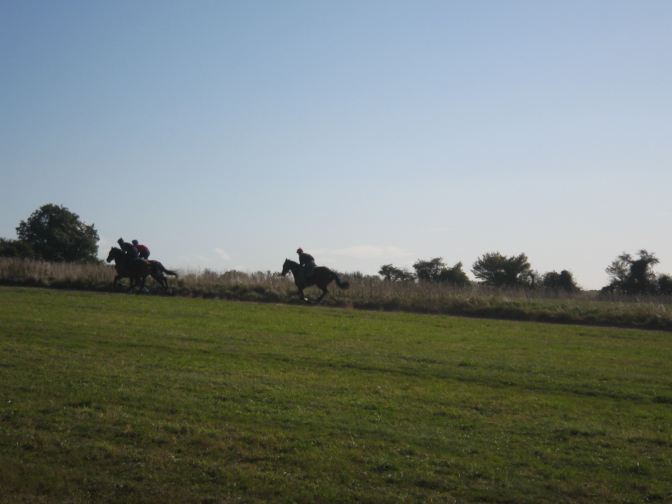 Jockeys galloping racehorses, Valley of the Racehorse Lambourn, Berkshire